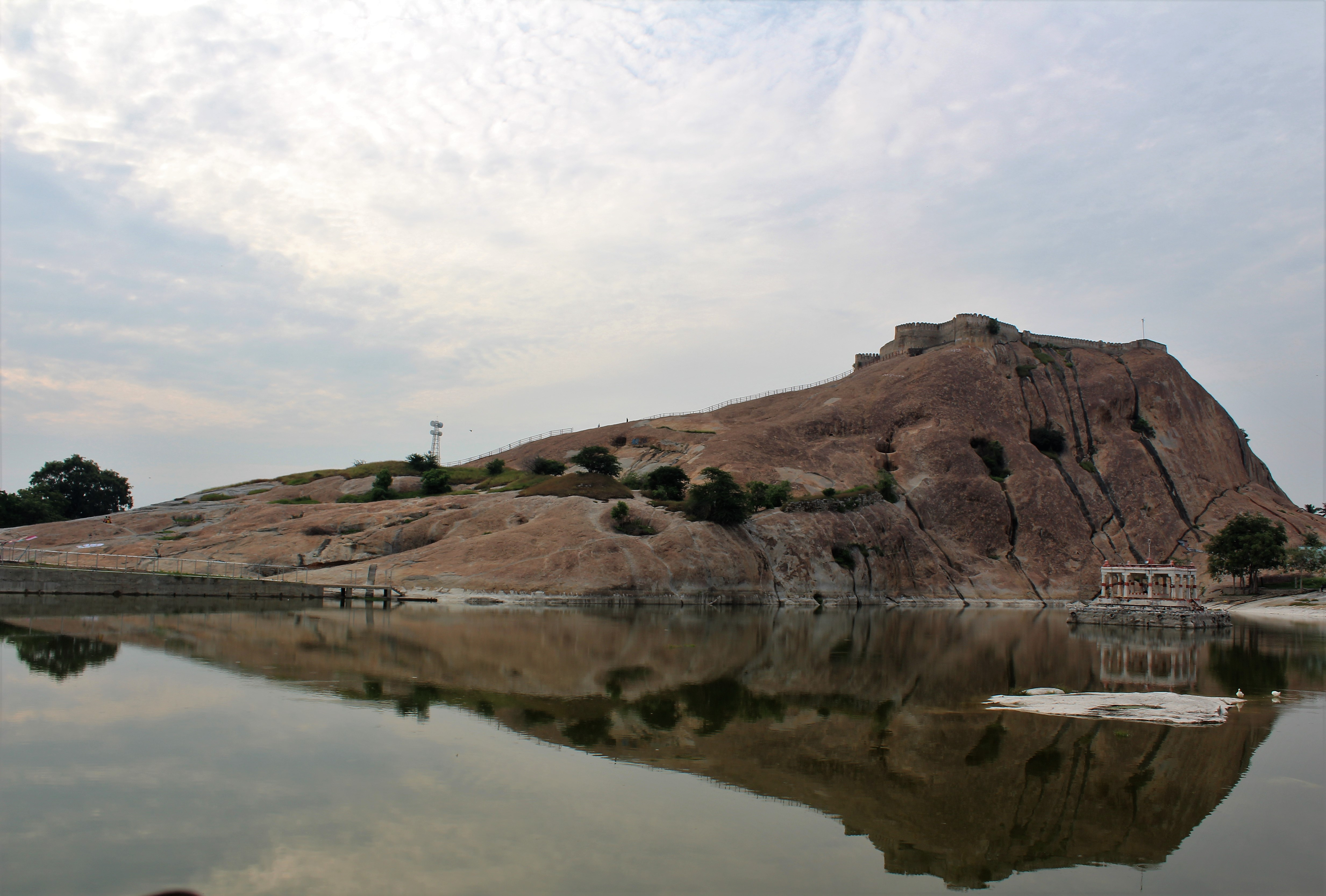 Namakkal Fort